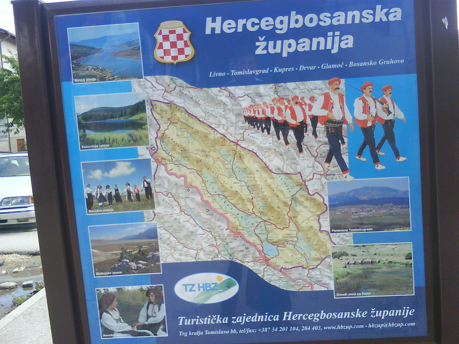 An information table at the bus station, city of Tomislavgrad